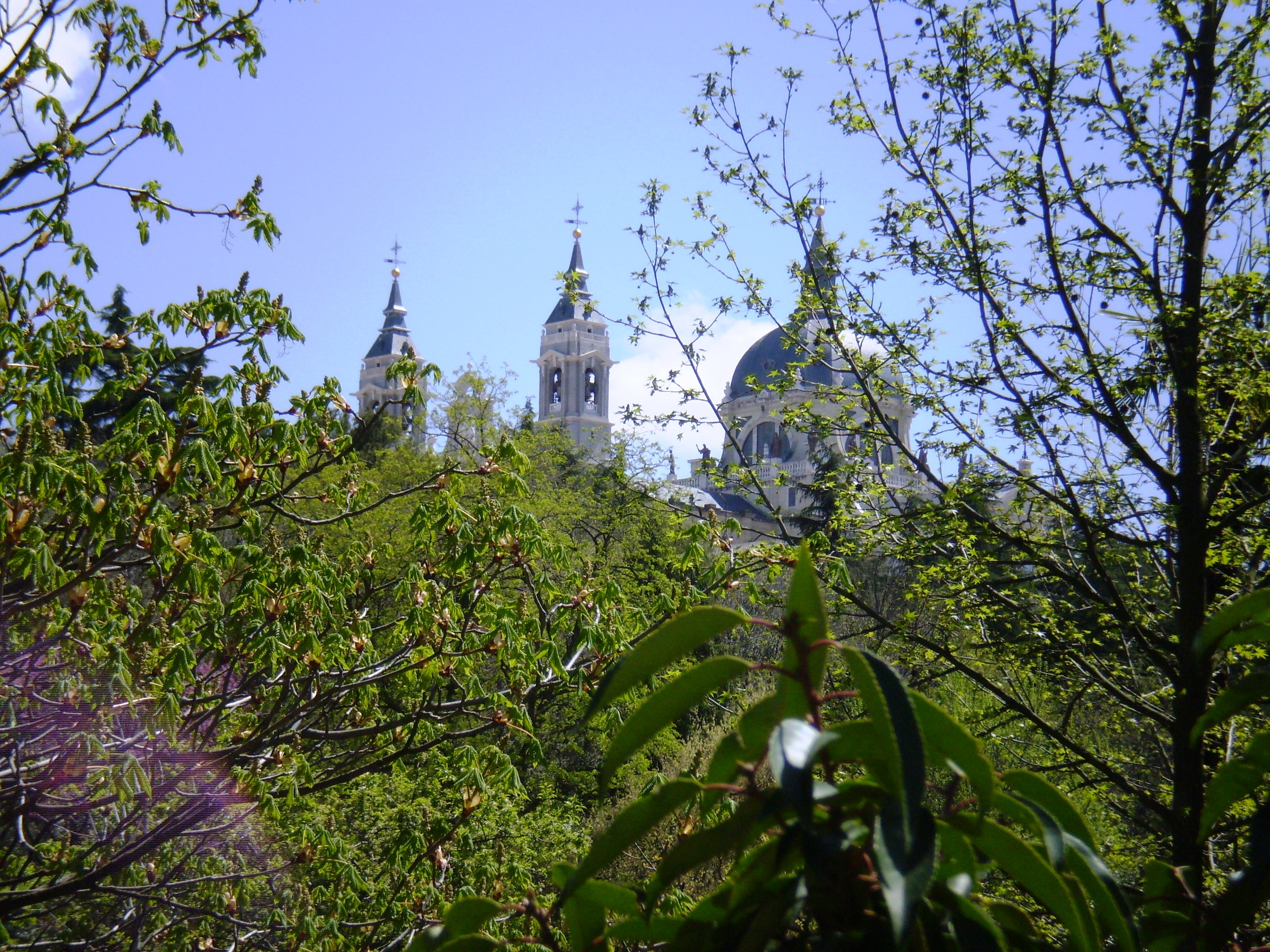 View of Cathedral de la Almudena from Campo del Moro Gardens in Royal Palace of Madrid, Spain